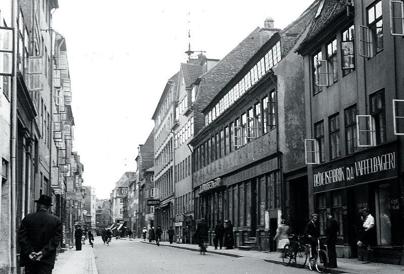 Vintage photograph of Borgergade in Copenhagen, Denmark. Møntmestergården (The Mint Master's Gouse) is seen in the picture.